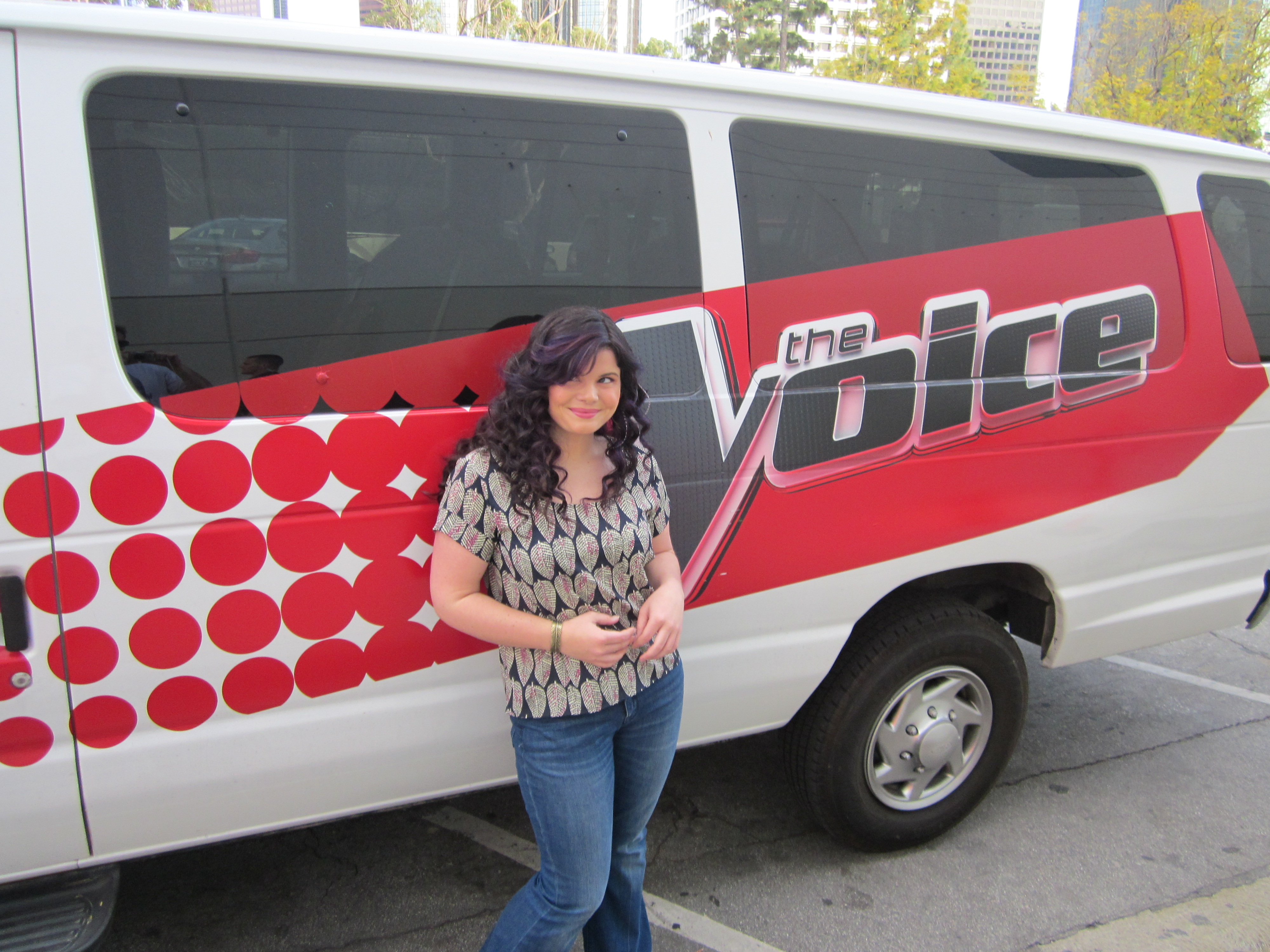 Rebecca Loebe backstage while filming Season 1 of The Voice in Los Angeles, CA.